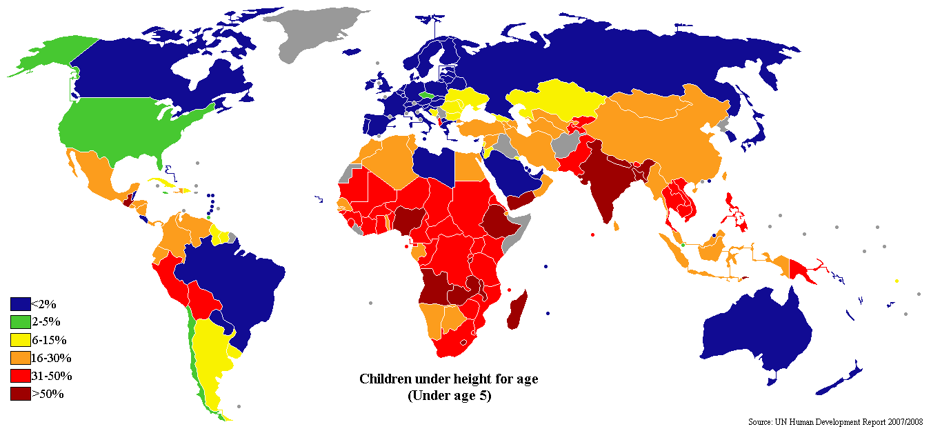 World map showing % of children under the age of 5 under height.